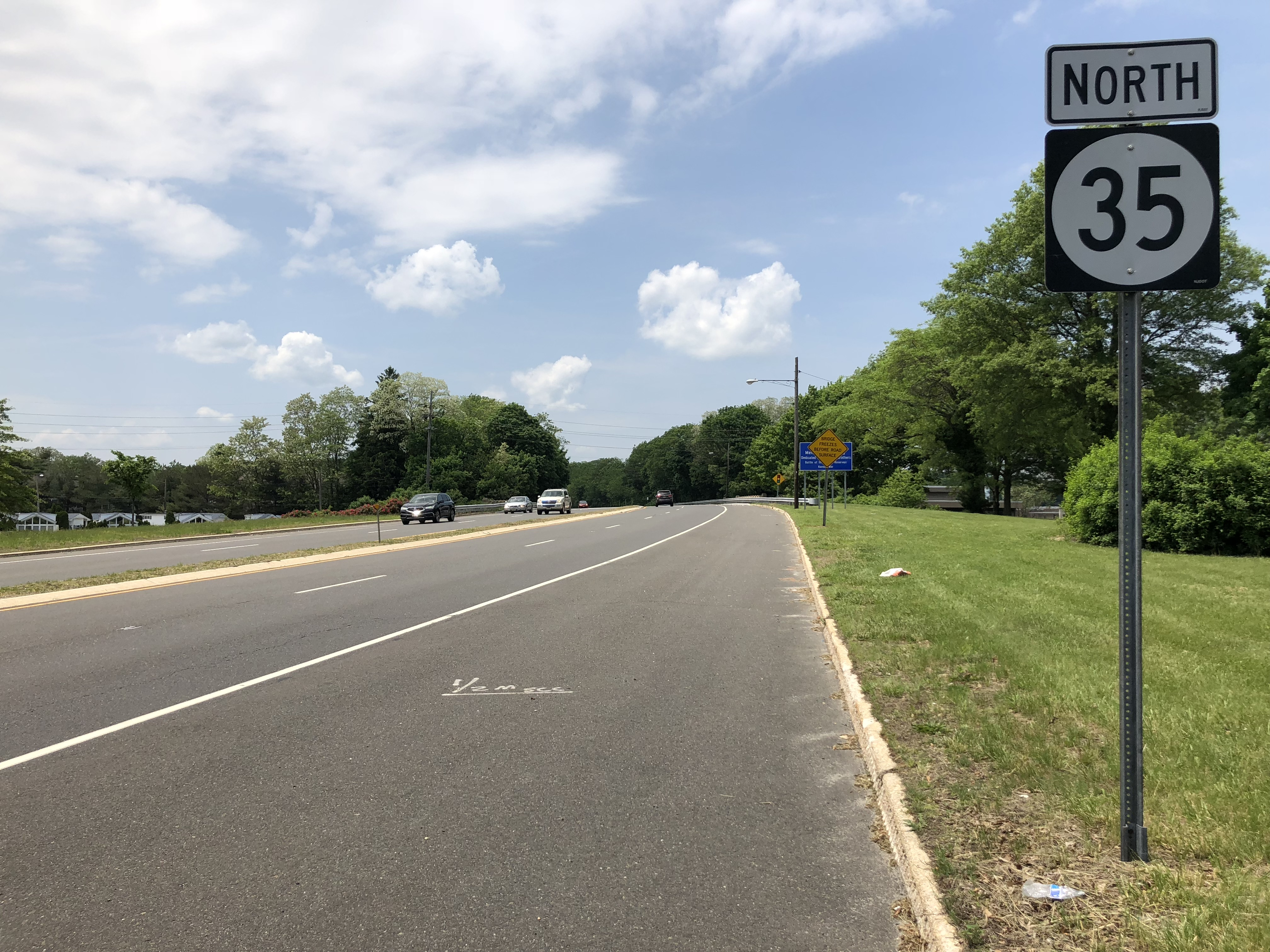 View north along New Jersey State Route 35 at New Jersey State Route 71 (Union Avenue) in Brielle, Monmouth County, New Jersey